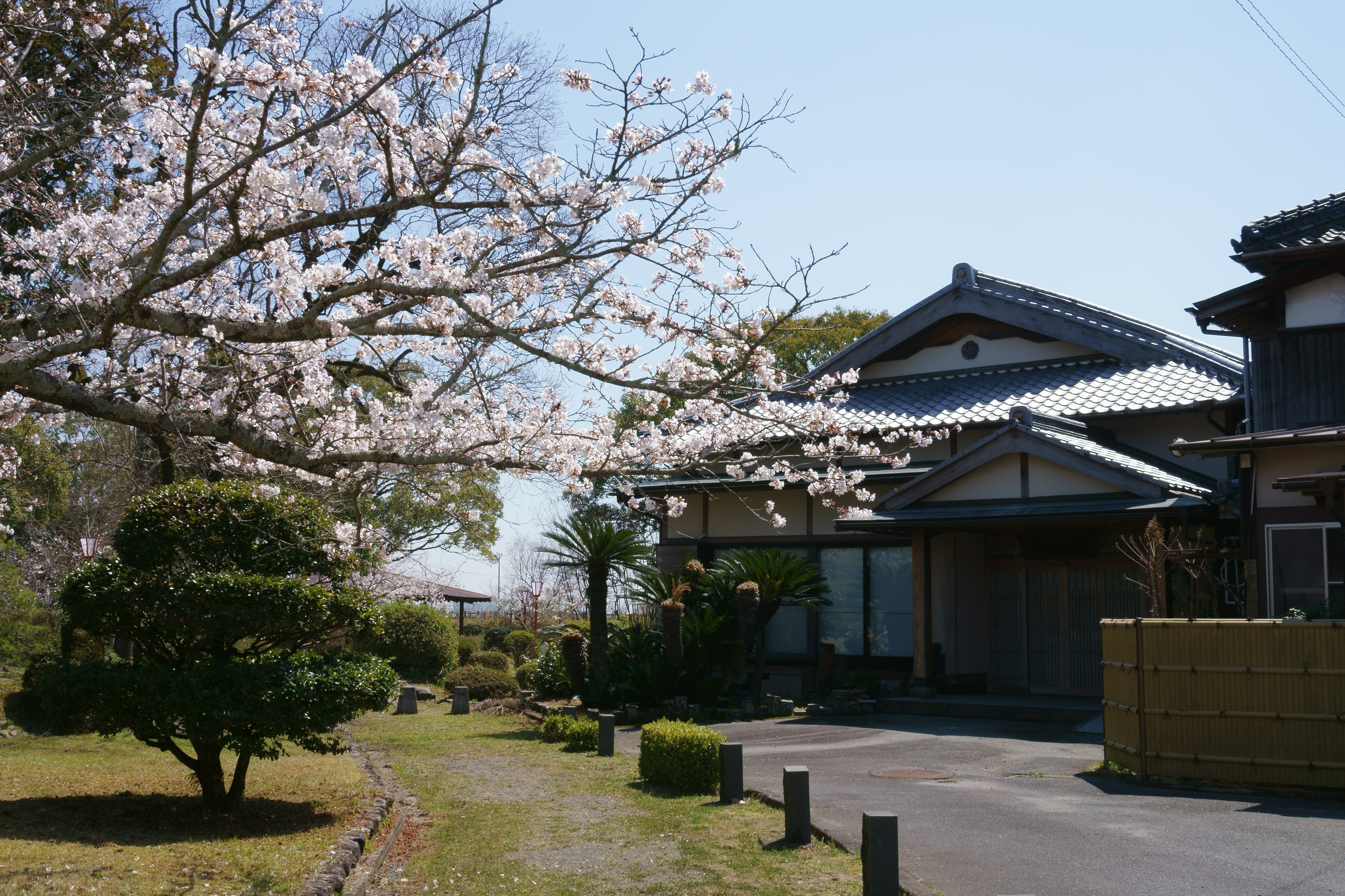 "Yoshukan" an old gathering hall in Hasuikemachi Hasuike, Saga city, Saga prefecture. It built in 1893.